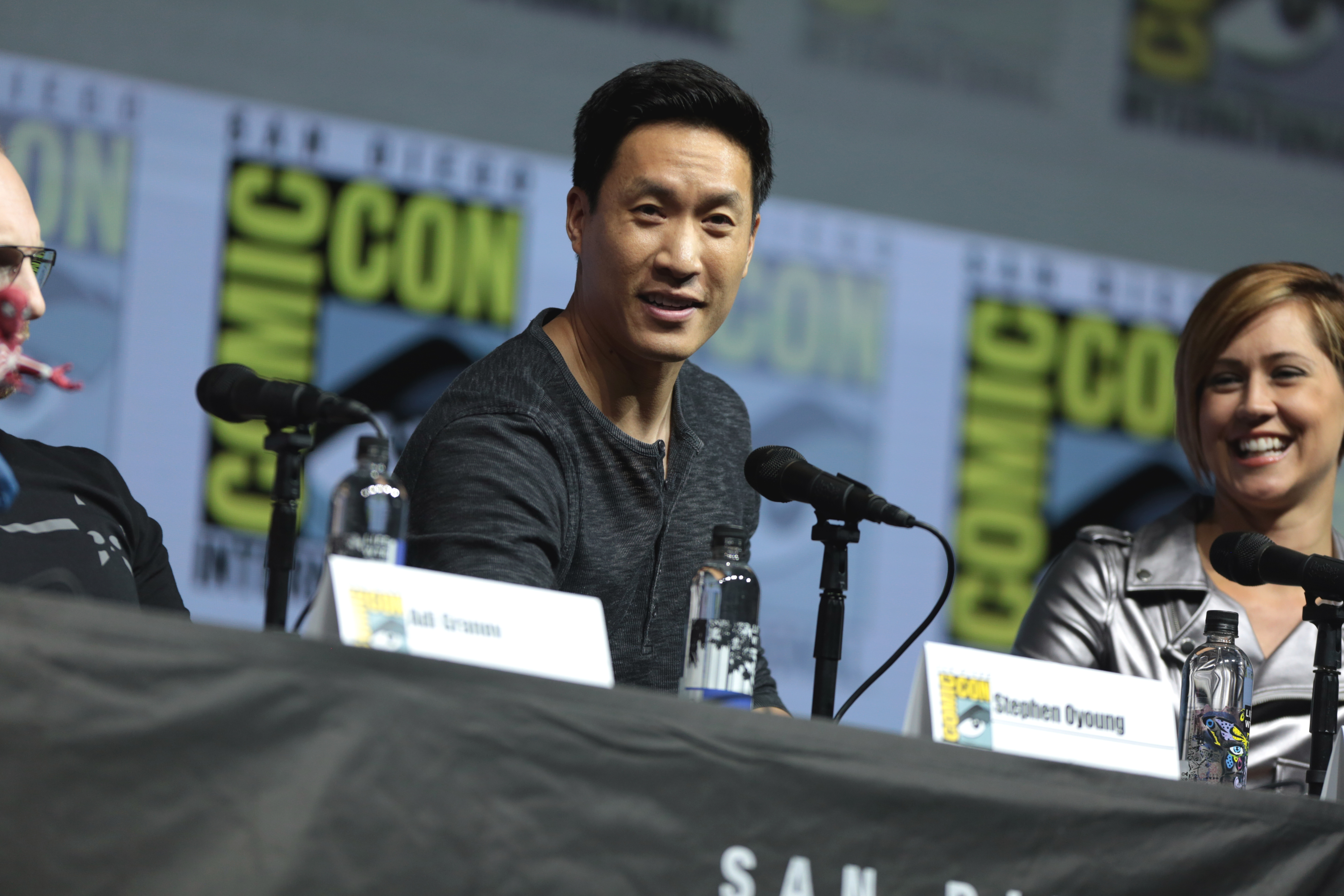 Stephen Oyoung speaking at the 2018 San Diego Comic Con International, for "Marvel Games", at the San Diego Convention Center in San Diego, California.